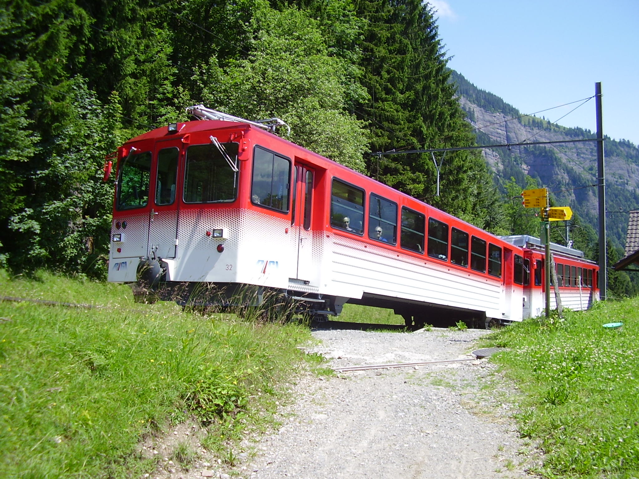 Rigibahn from the village Vitznau untill the top of the Rigi mountain in Zwitserland